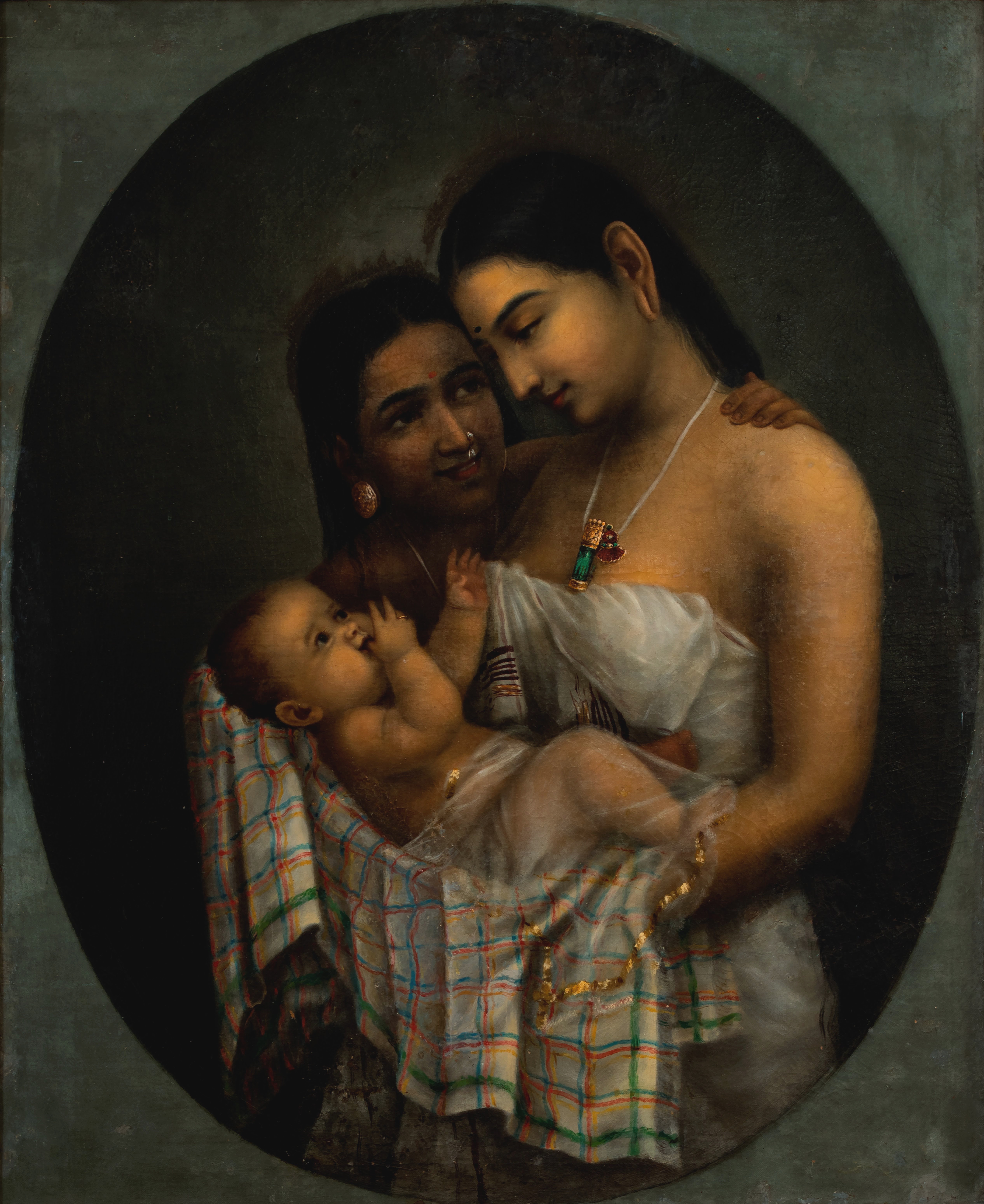 A painting showing the affection of mother.